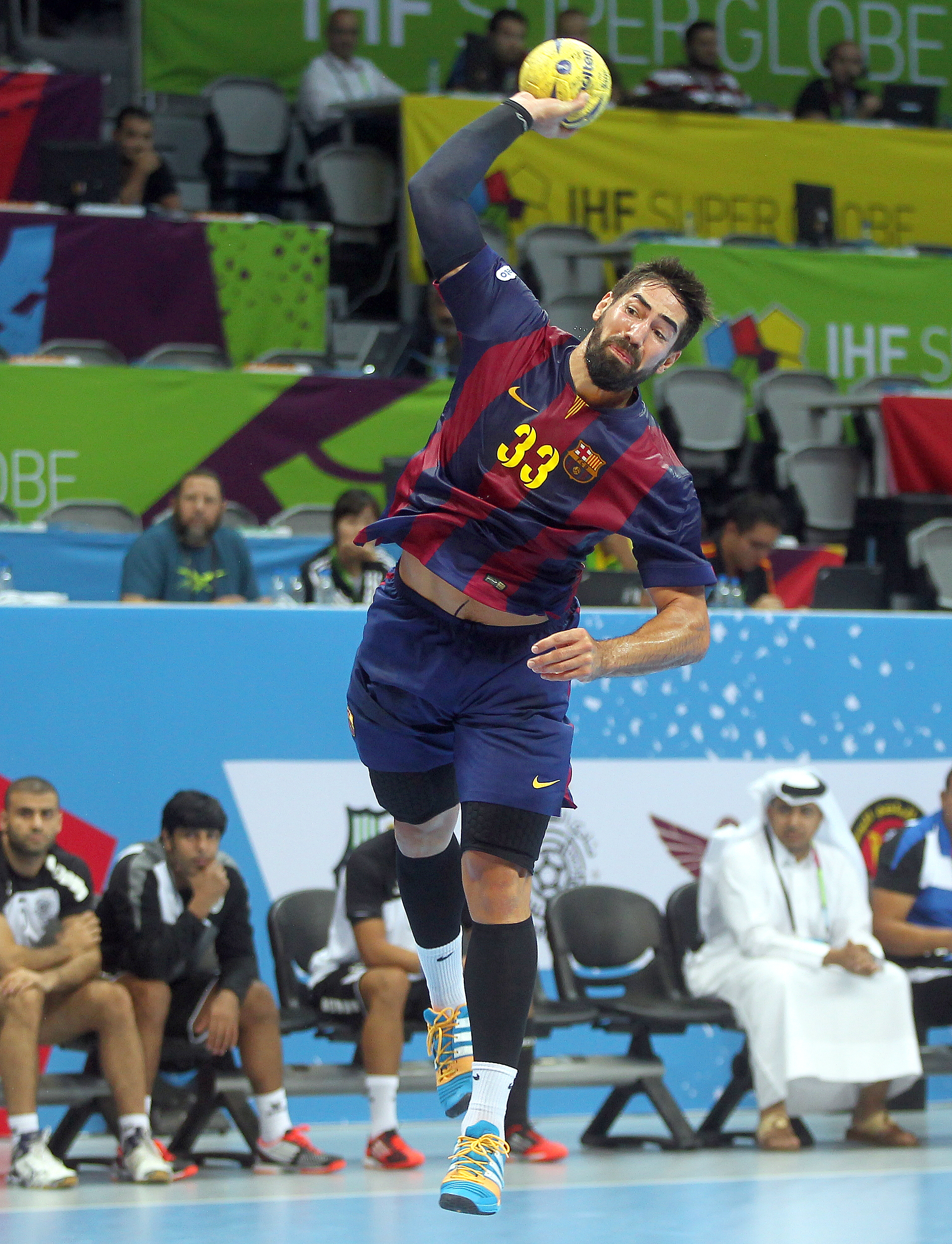 Barcelona's Nikola Karabatic is poised to score against Al Sadd in the IHF Super Globe. Pic by Mohan